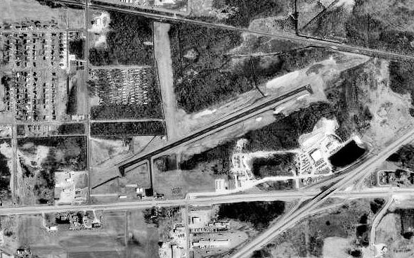 USGS digital orthophoto of Bloyer Field, an airport in Tomah, Wisconsin, United States